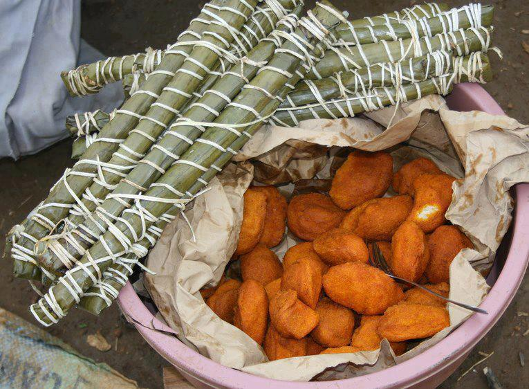 Miodo et beignets-Bandrefam-Cameroun